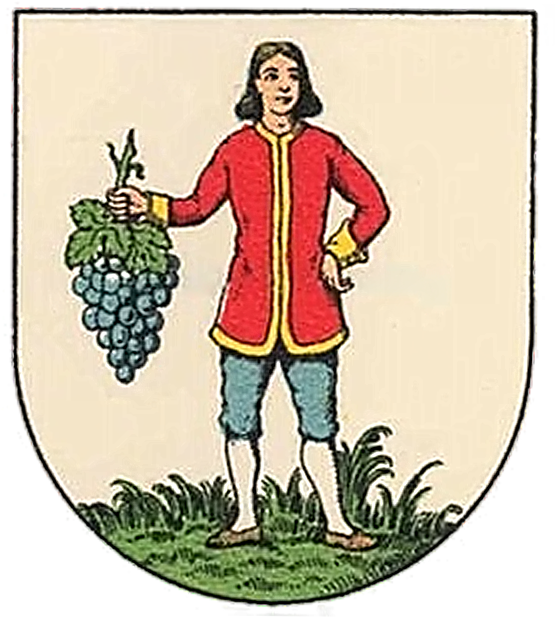 Coat of Arms of Grinzing, Vienna